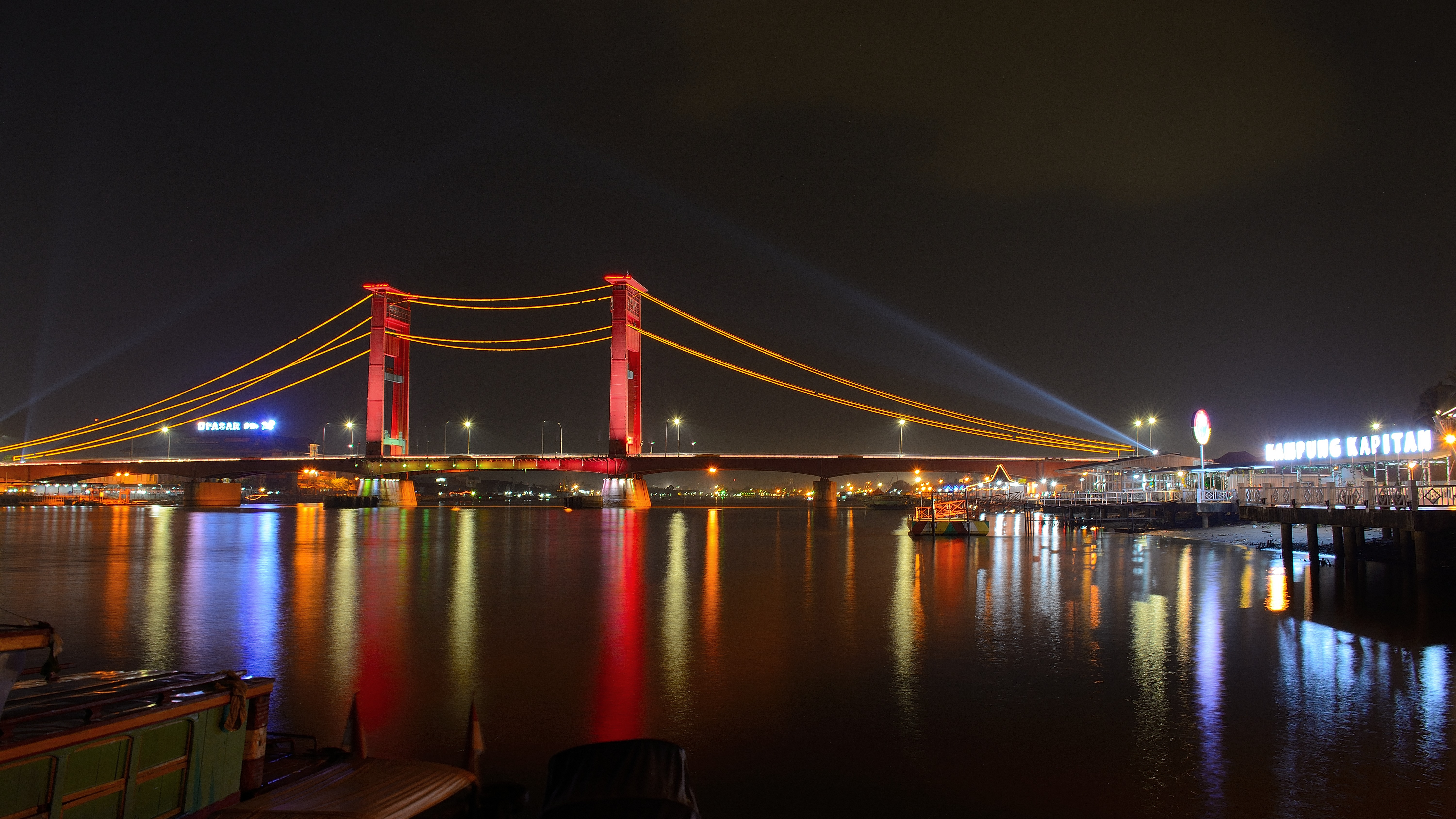 Jembatan Ampera